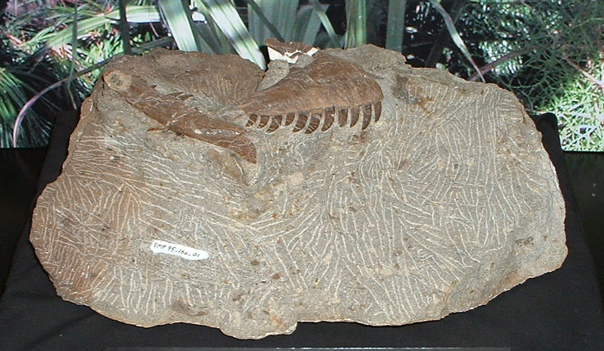 Photograph of the maxilla fossil of Atrociraptor marshalli of the Horseshoe Canyon Formation, late Cretaceous. From the Royal Tyrrell Museum of Drumheller, Alberta, August of 2006.